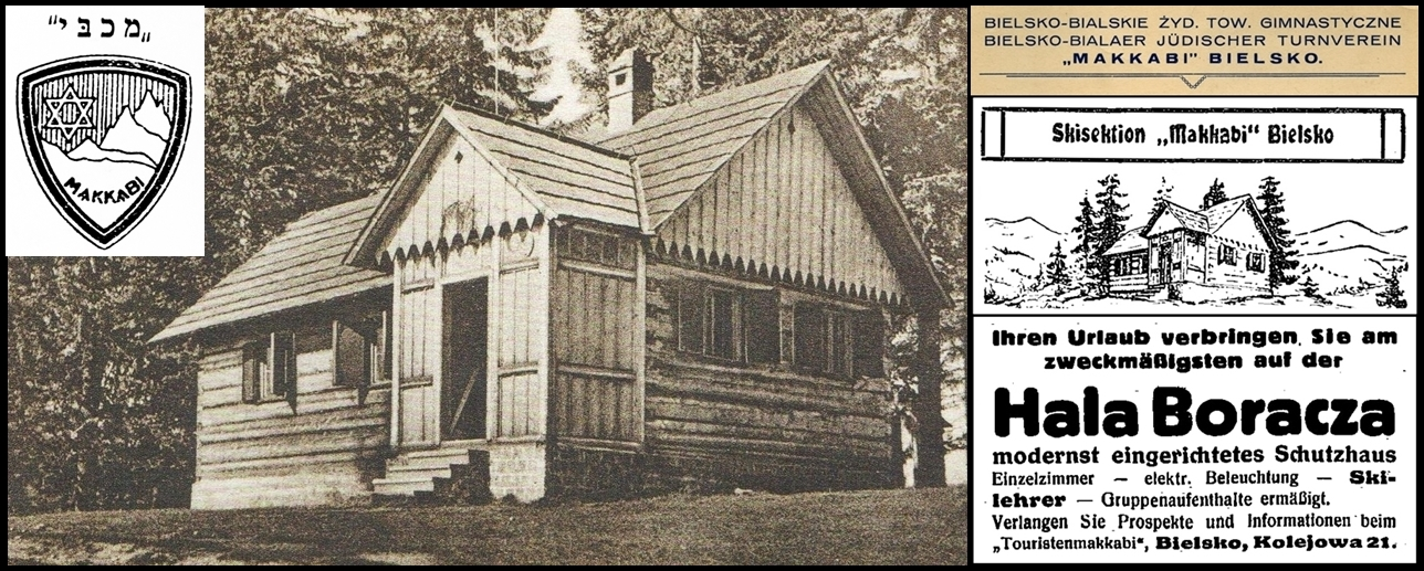 The first Jewish tourist mountain hostel in the world of the Jewish Tourist and Ski Association Makabi Bielsko 1929 on Hala Boracza